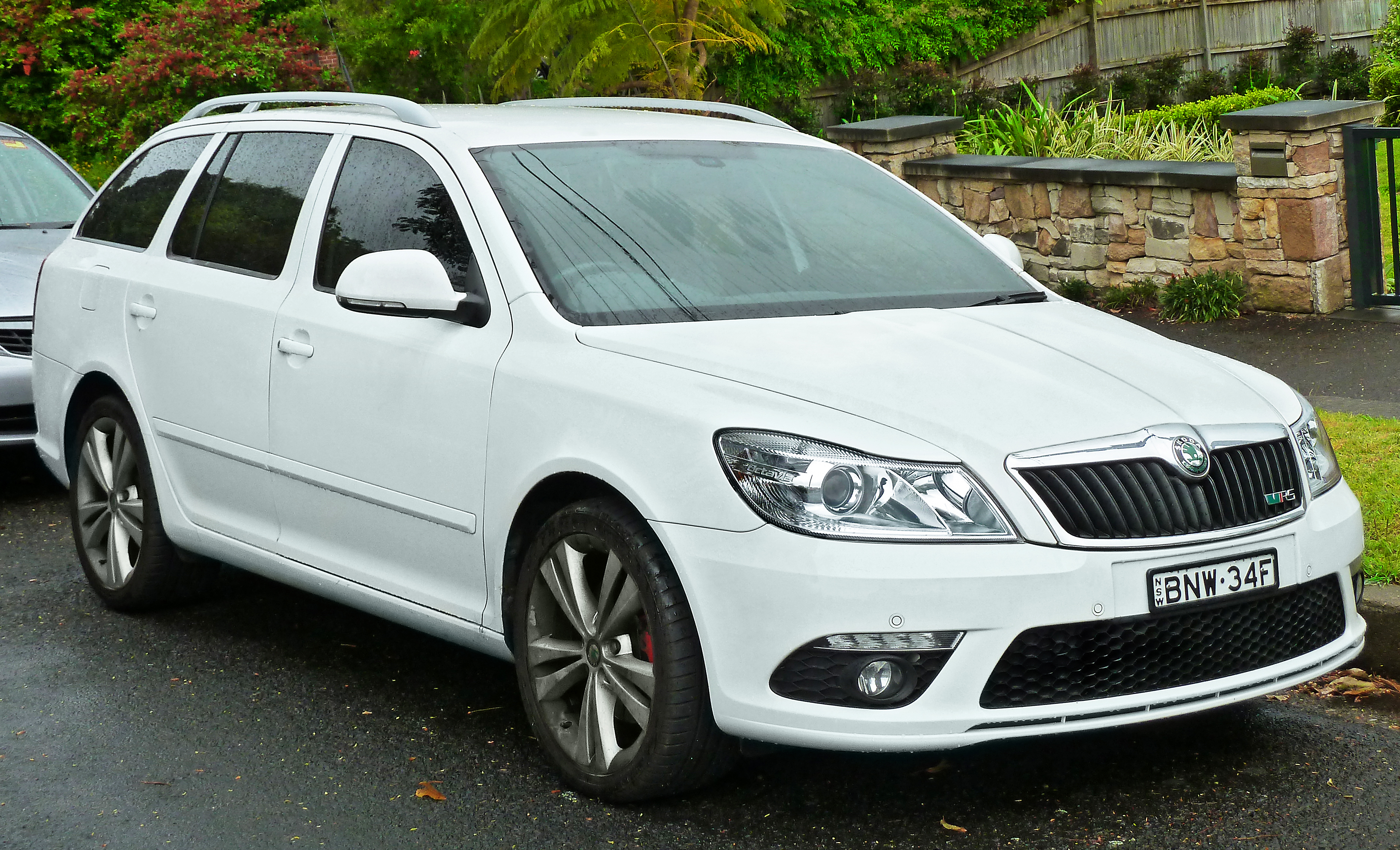 2009–2011 Škoda Octavia (1Z) RS station wagon. Photographed in Roseville, New South Wales, Australia.